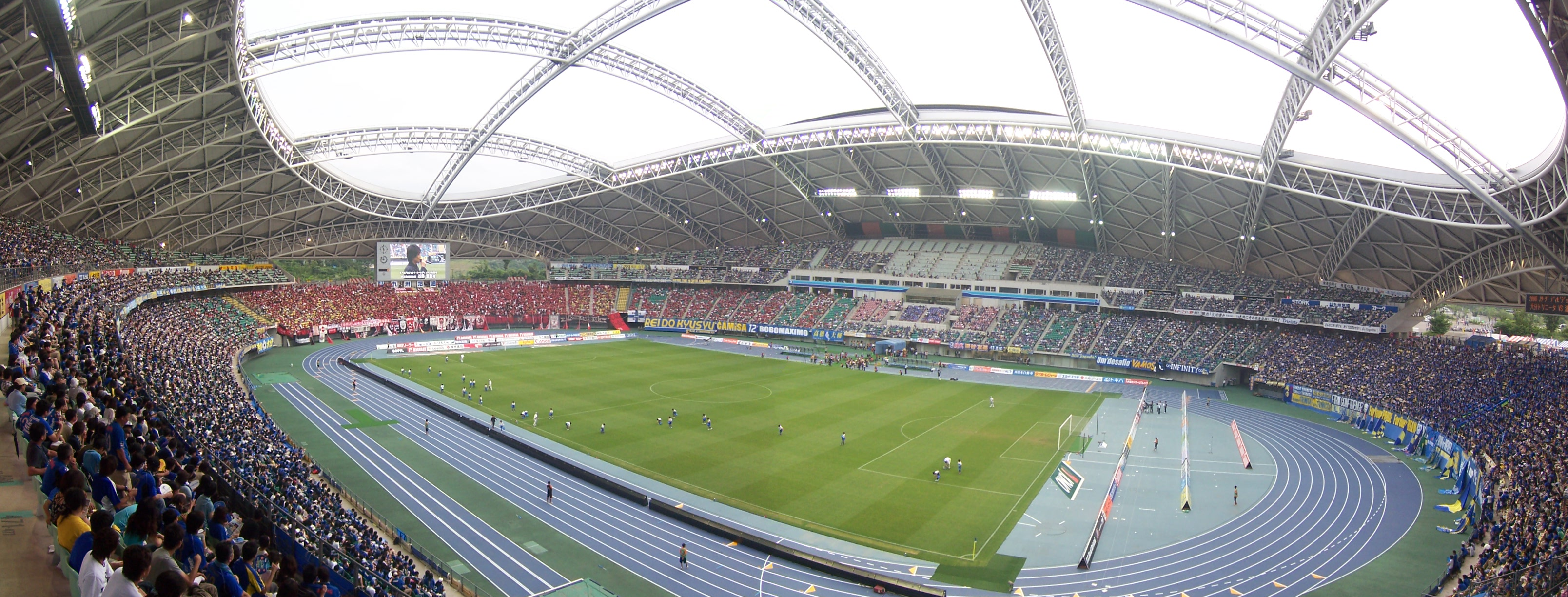 Ōita Stadium, Ōita Prefecture, Japan. Its roof was opened. This picture was taken on July 12, 2008. The match is J-League Division 1 between Urawa Reds and Ōita Trinita. The picture was first uploaded in the Japanese internet community 2ch "Domestic Soccer Board" (国内サッカー板) "Thread for Uploading Pictures Taken in Stadiums, Part 16" (スタジアム写真をウプするスレPart16). The original uploader permitted me to upload the picture. 大分石油ドーム、大分県、日本。屋根開いてます。2008年7月12日撮影。試合はレッズとトリニータ。 2ch国内サッカー板の「スタジアム写真をウプするスレPart16」 ( より撮影者の許可を得てうｐ。